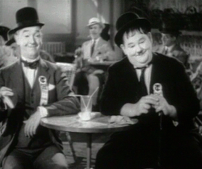 Stan Laurel and Oliver Hardy in the opening scenes of their 1939 RKO picture The Flying Deuces.